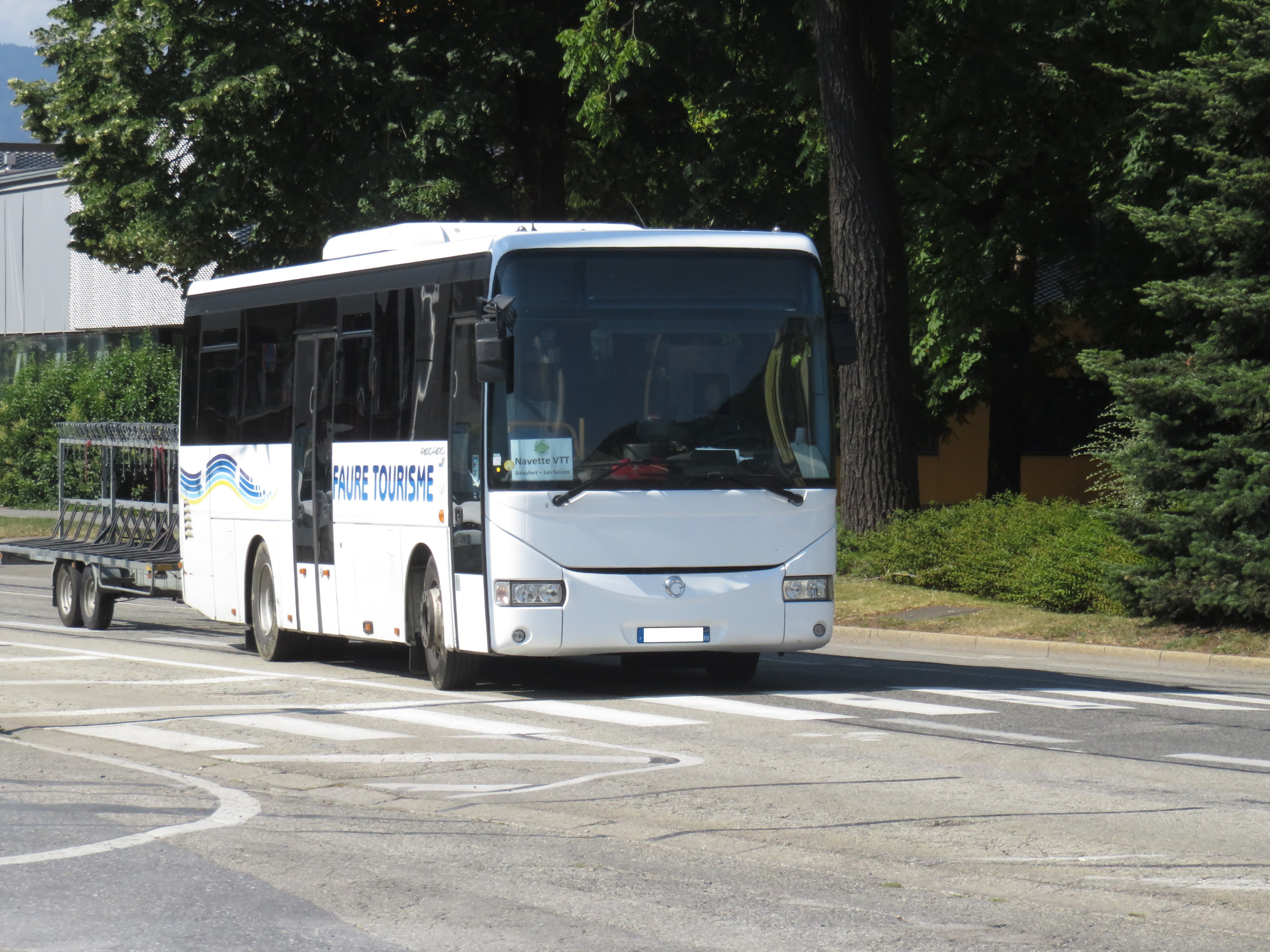 A Irisbus Récréo (Faure), carrying out a summer line of the bus network Transports Région Arlysère — Beaufort↔Albertville — and running on the Cours de l’Hôtel de Ville (Albertville, France) on July 17, 2018.